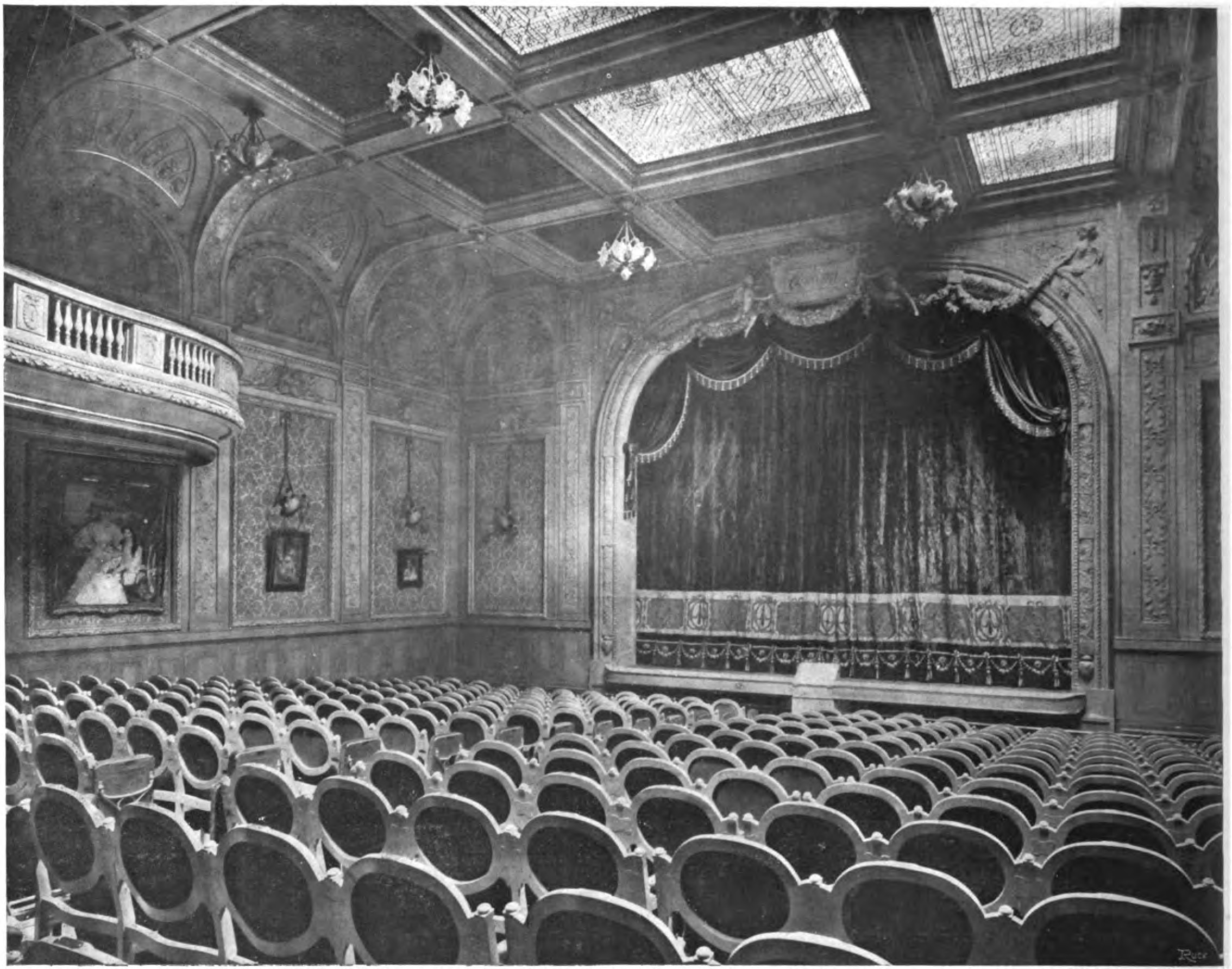 View of the auditorium and stage of the former Théâtre Fémina on the Champs-Élysées in Paris